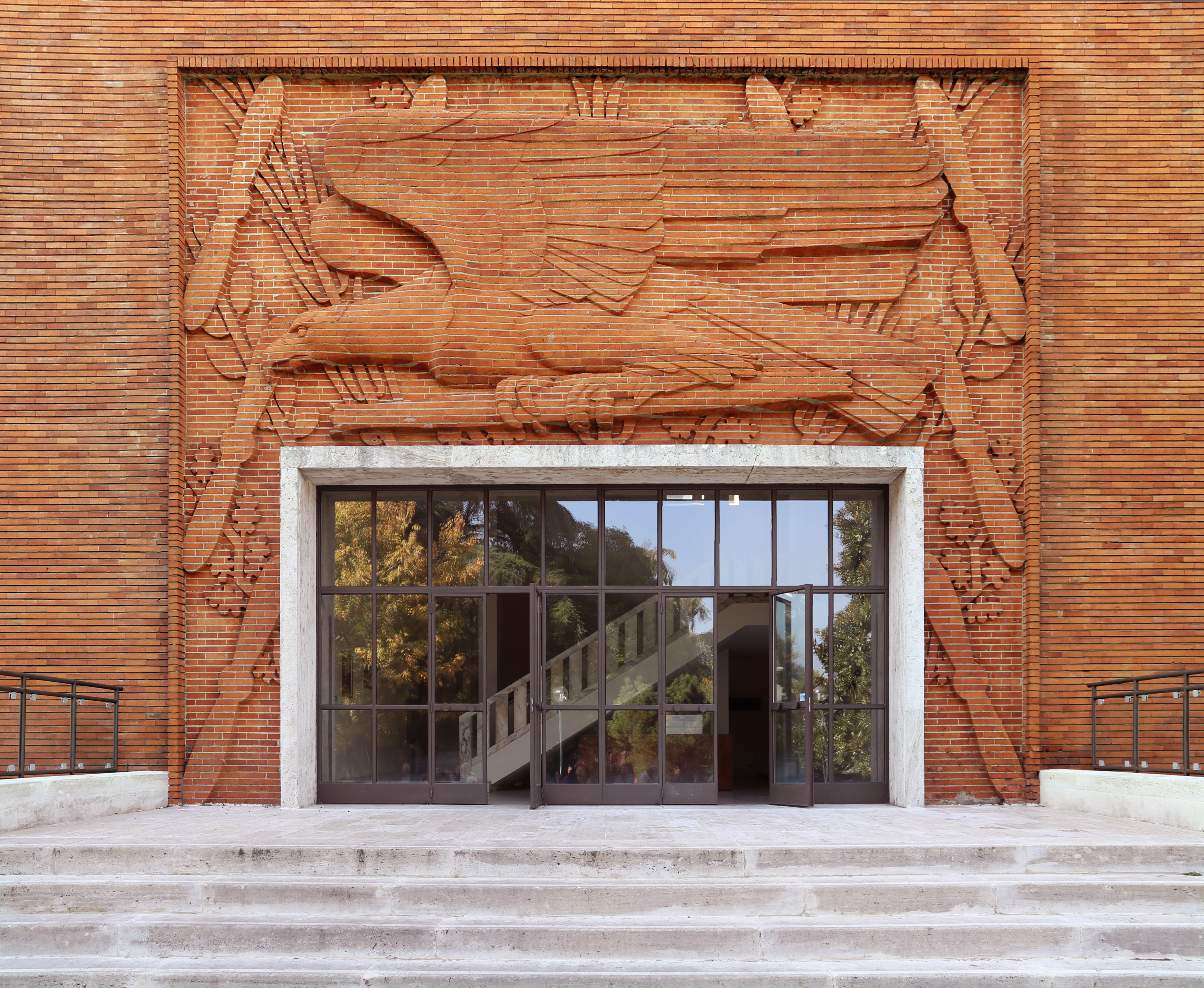 Scuola di Guerra Aerea (Florence) - Alloggio Ufficiali